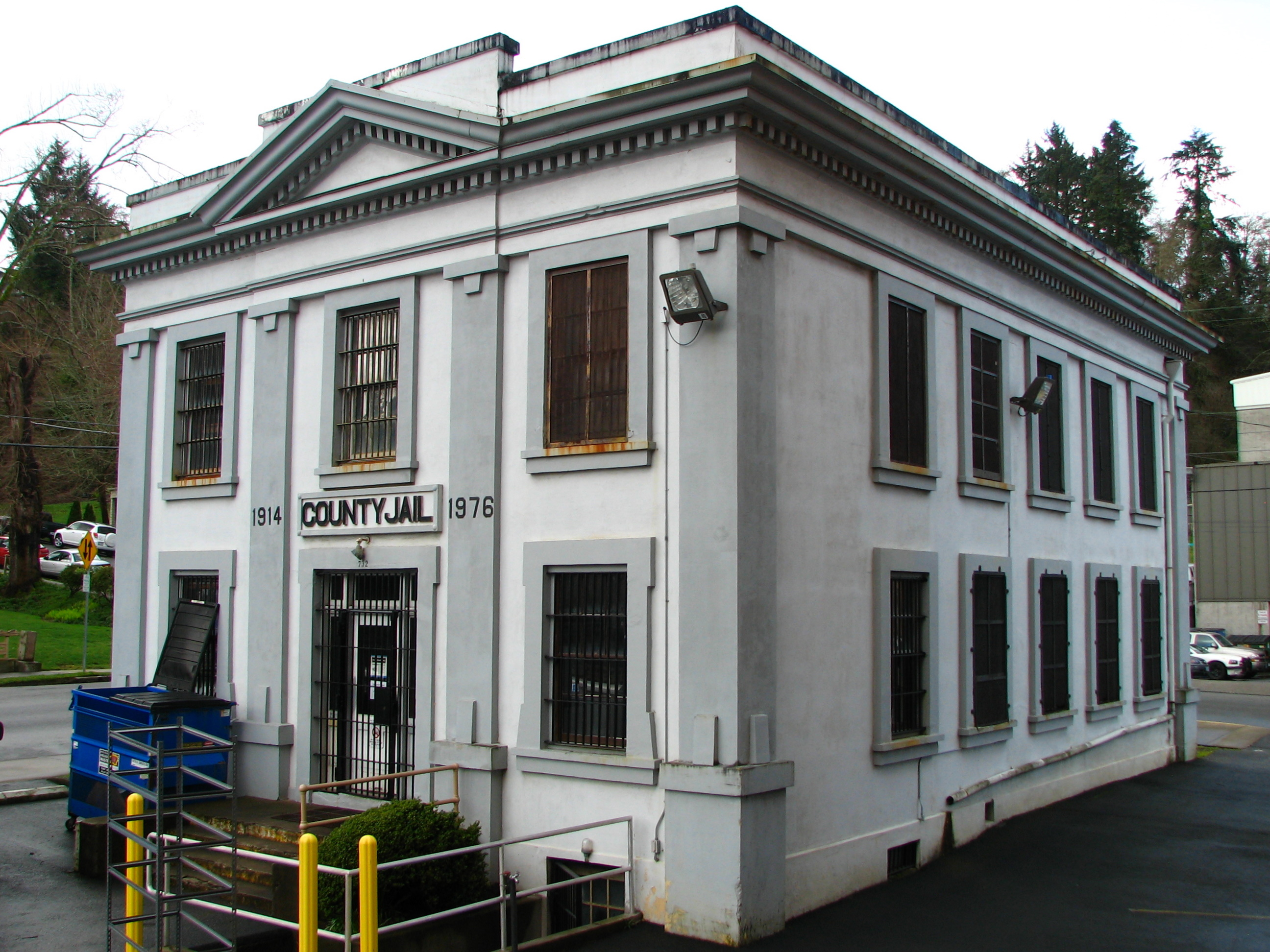 The historic Old Clatsop County Jail (built 1913), located at 732 Duane Street in Astoria, Oregon, United States, is listed on the US National Register of Historic Places (NRHP). Since 1976, it is no longer in use as a jail, and in 2010 it was reopened as the Oregon Film Museum. A corner of the current sheriff's office and jail is narrowly visible in the right background of this photo. Photo was taken from the rear steps of the county courthouse.